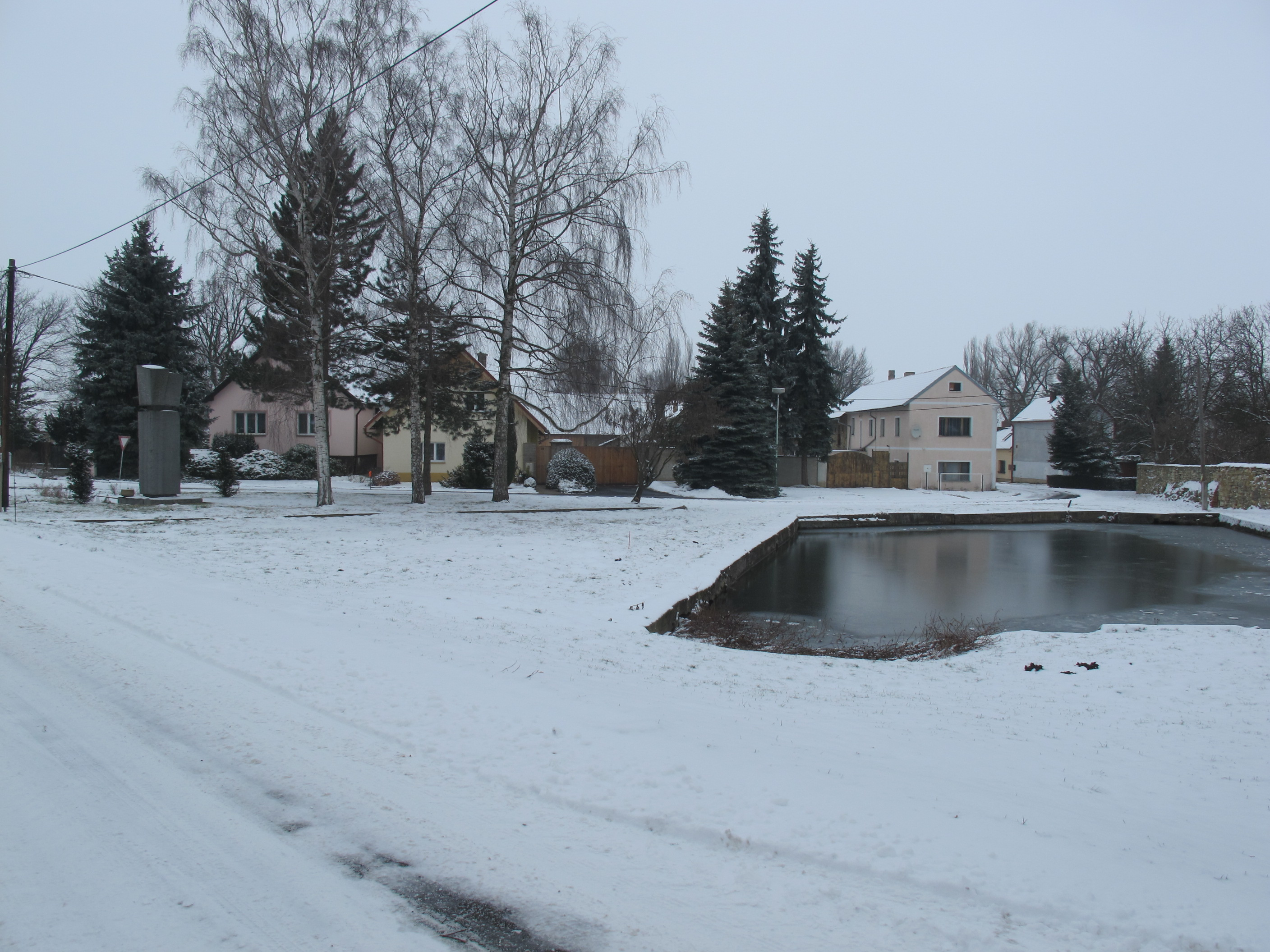 Village square in Toužetín